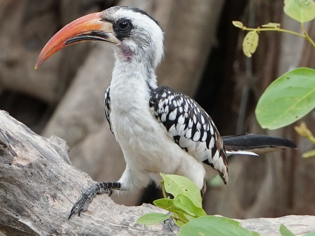 Western Red-billed Hornbill (Tockus kempi), The Gambia